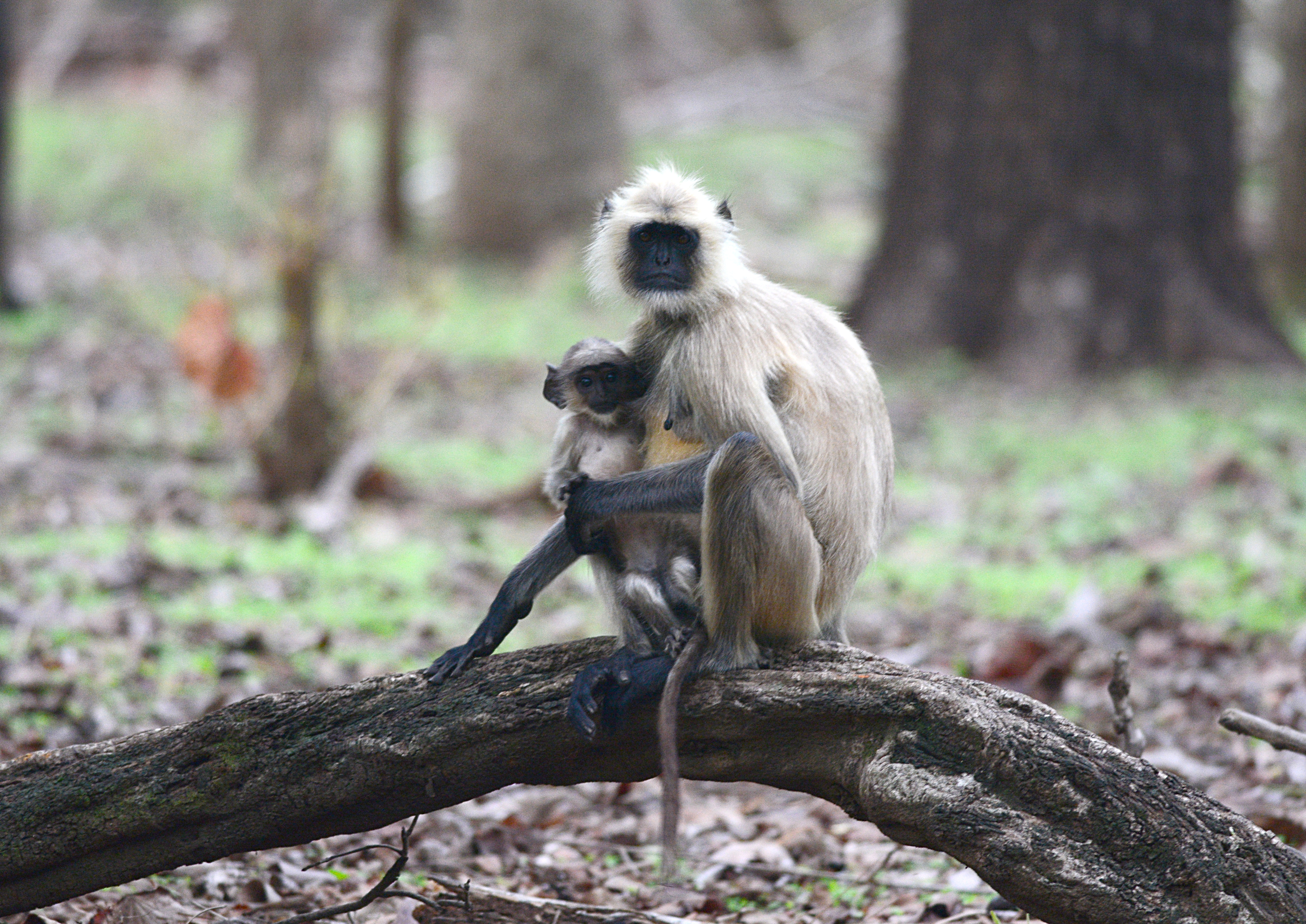 Hnuman Langur (Semnopithecus sp.) mom and baby